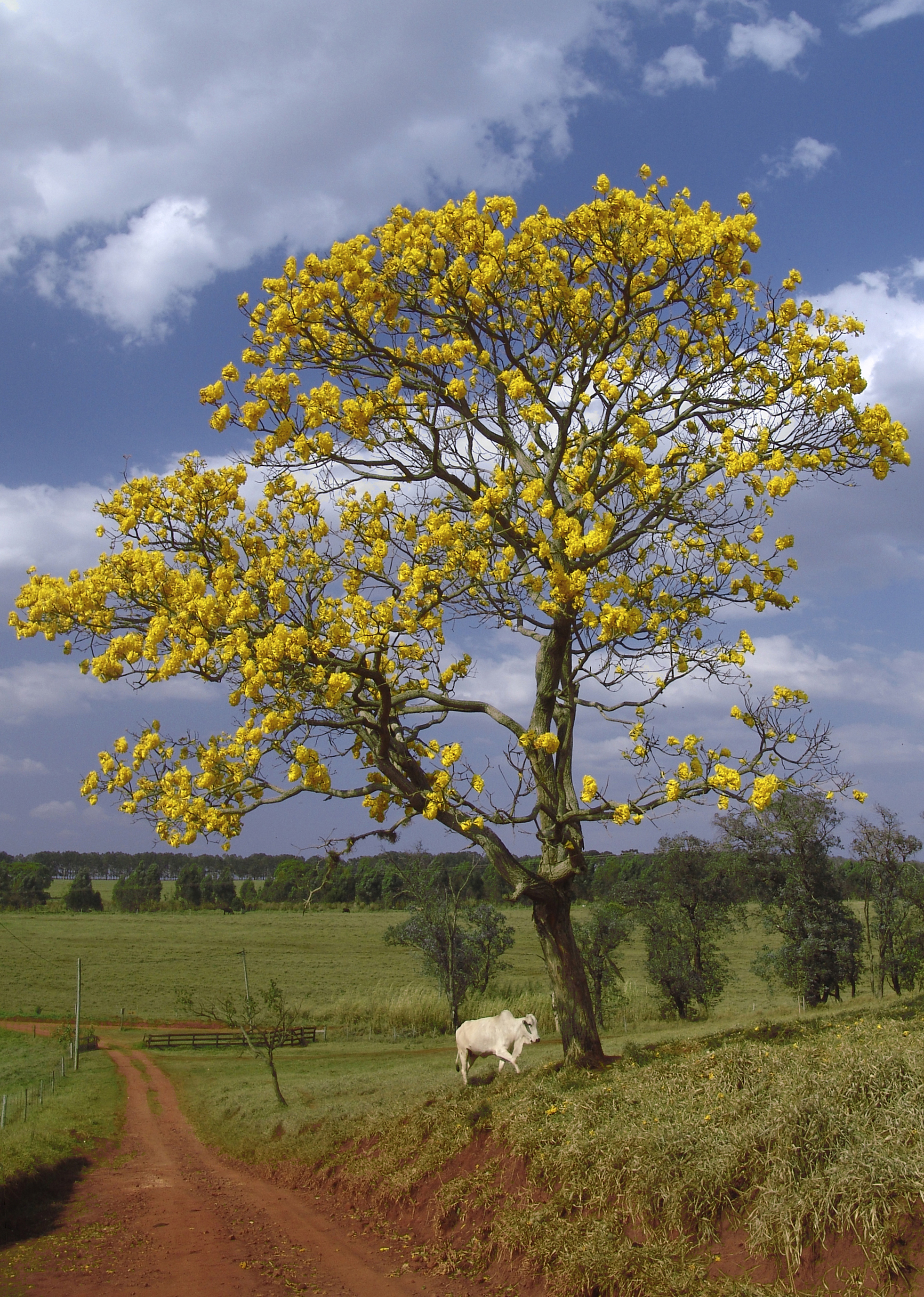 Yellow ipê (ipê-amarelo) in Avaré (Brazil).